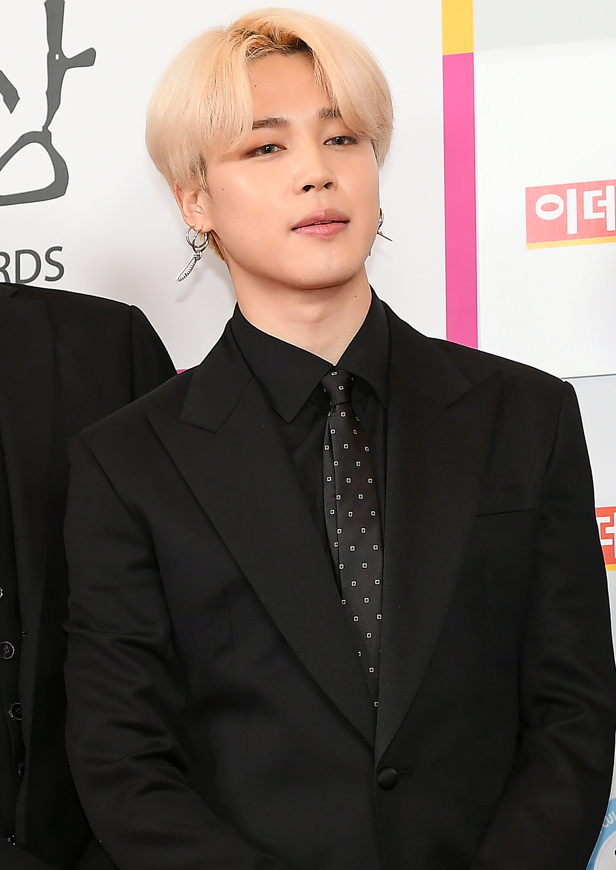 Jimin at the 6th EDaily Culture Awards on February 26, 2019